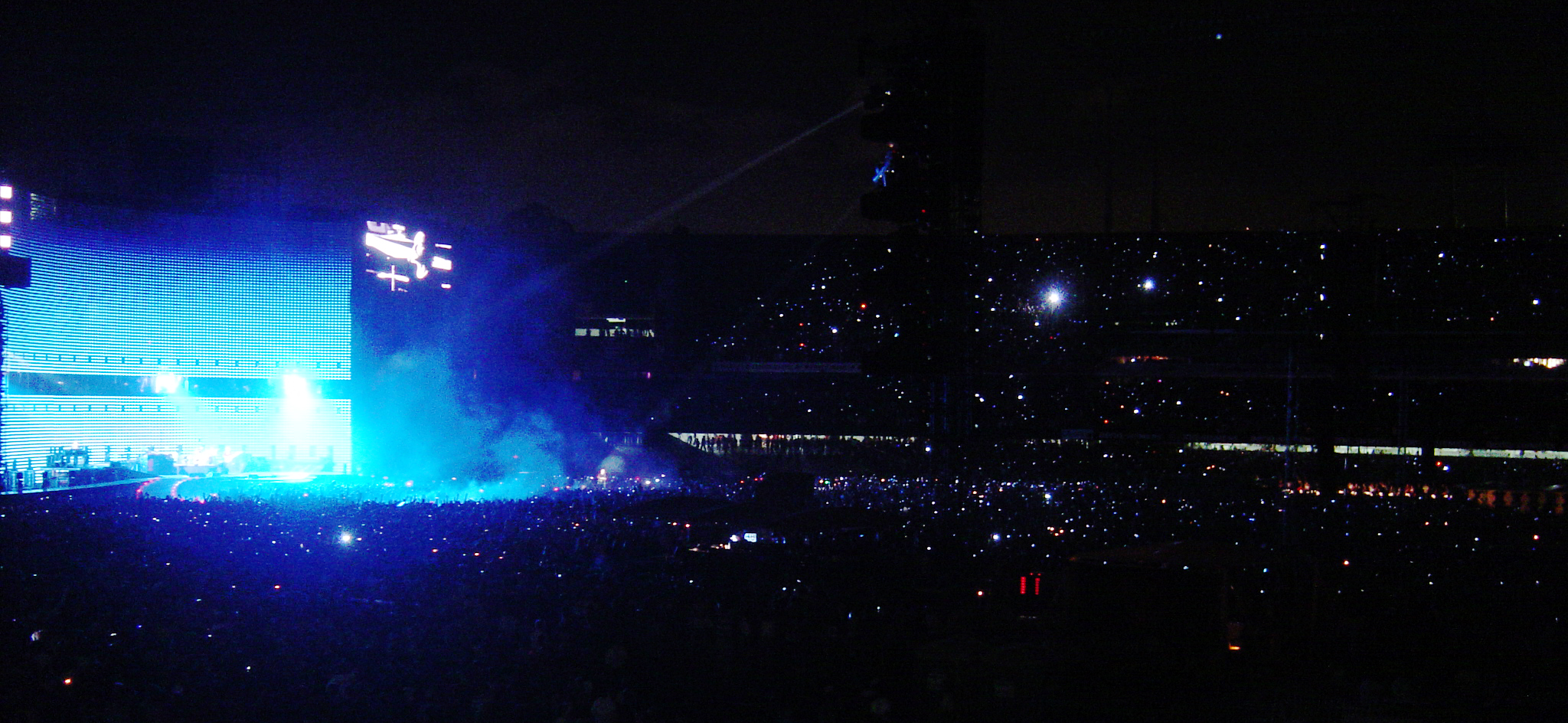 second show of U2 in Cícero Pompeu de Toledo stadium, known as Morumbi, for de Vertigo Tour.